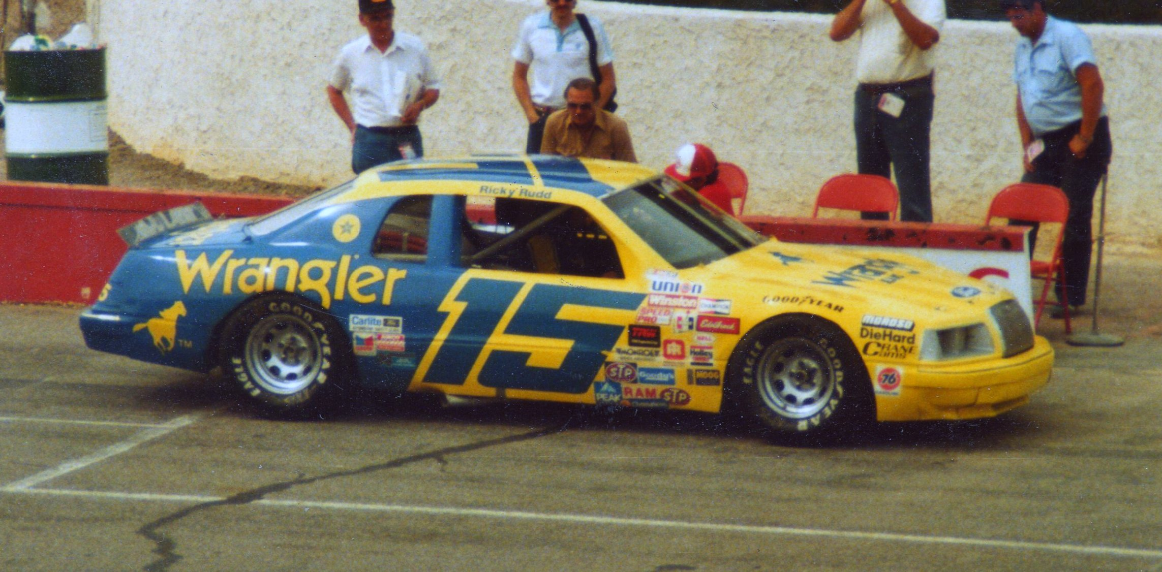 Ricky Rudd in his #15 NASCAR car for Bud Moore. Rudd moved to the Bud Moore team in 1984 and won 6 races in 4 years for them.